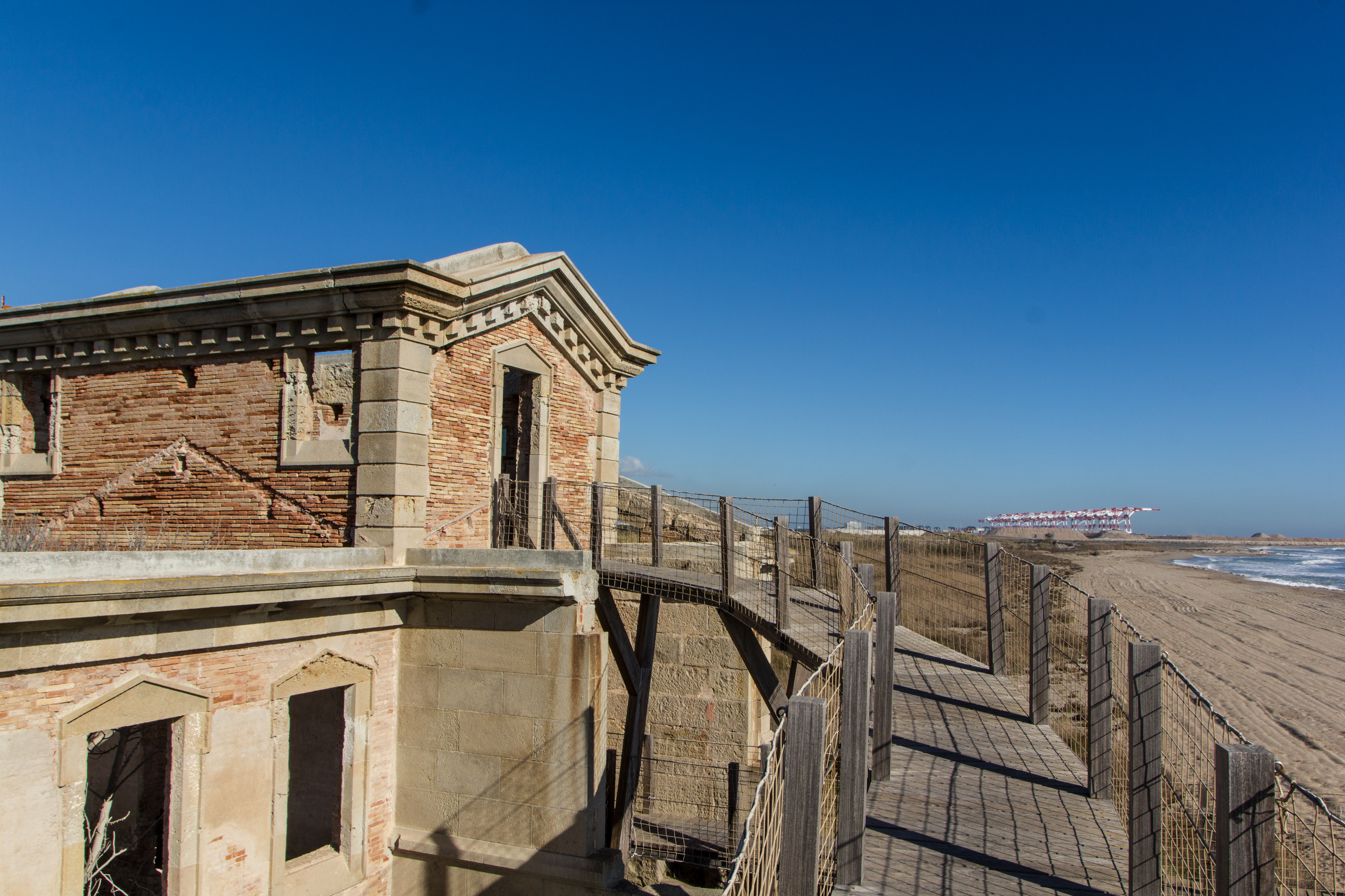 View of the ramp at the Semàfor